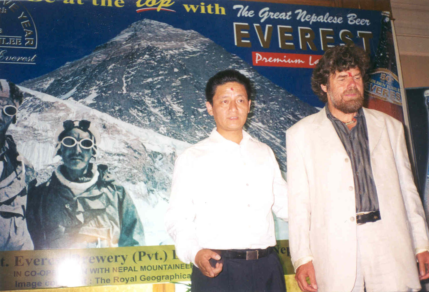 Jamling Tenzing Norgay with Reinhold Messner